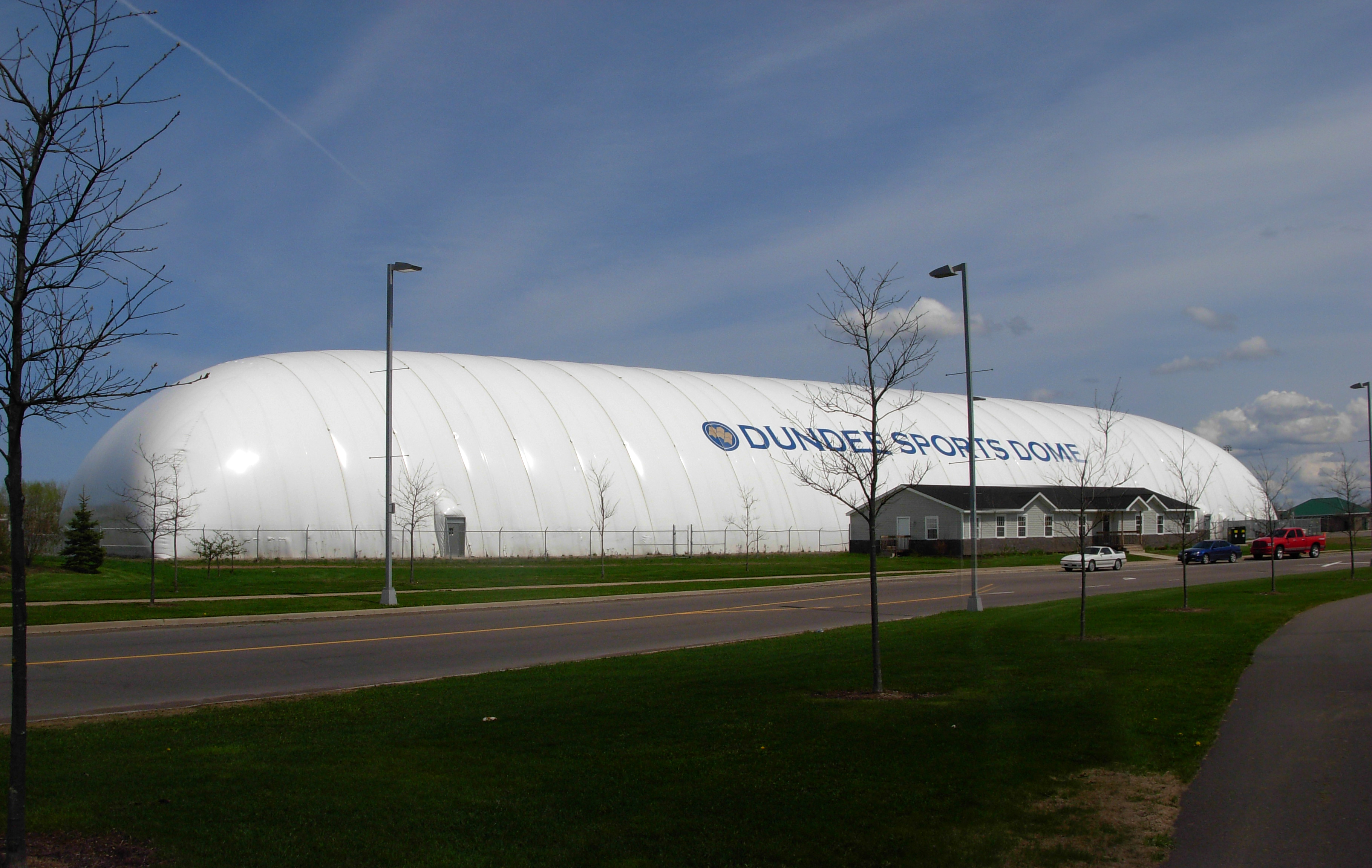 The Dundee Sports Dome in Moncton